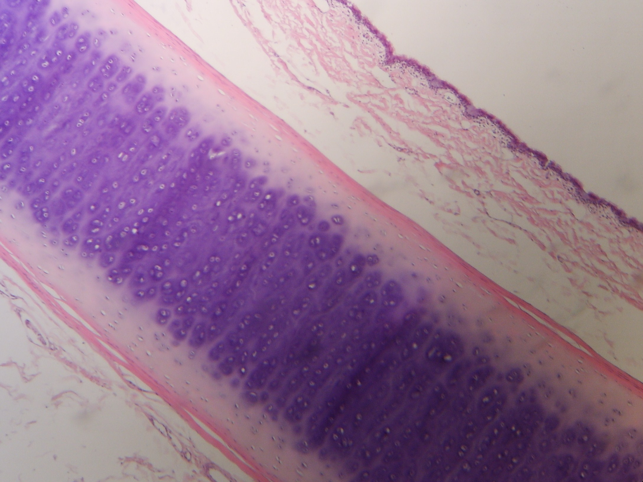 Trachea ostrich